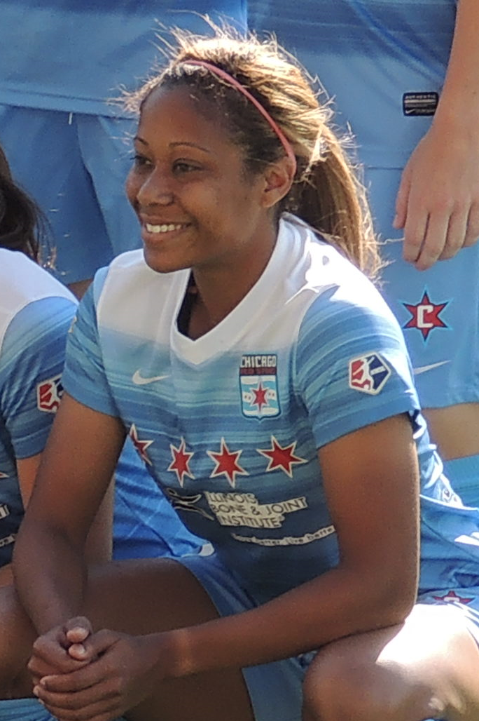 June 12 2016 - Chicago Red Stars starting lineup against Portland Thorns FC